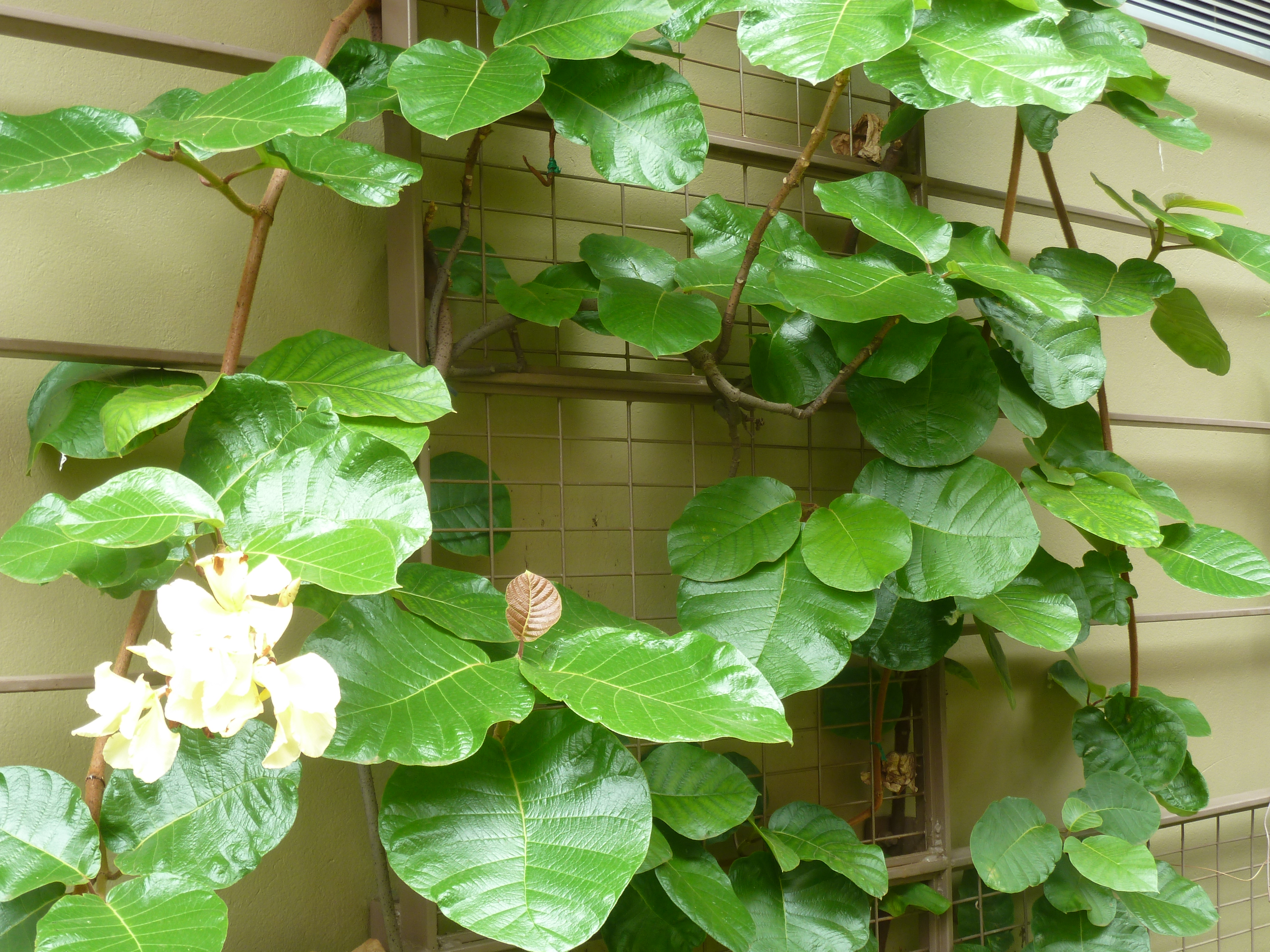 Habit of a Climbing frangipani in the Manie van der Schijff Botanical Garden, Pretoria